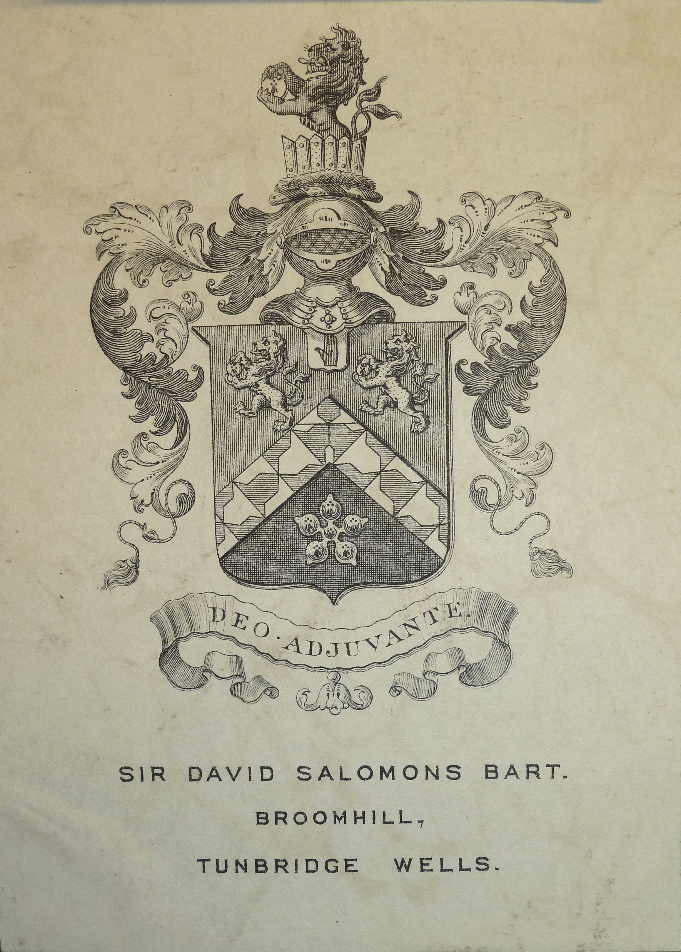 Sir David Salomons Bart. Broomhill, Tunbridge Wells Motto: Deo Adjuvante One of two men: Sir David Salomons (1797-1873), 1st Baronet; financier and politician, the first Jewish Sheriff of the City of London and Lord Mayor of London, and one of the first two Jewish MPs to serve in the House of Commons. Sir David Salomons (1851-1925), 2nd Baronet (nephew of the first Sir David); professional jurist and amateur electrical engineer. Penn Libraries call number: EC8 B7898 W857g All images from this book Flickr data on 2011-08-12: Camera: Panasonic DMC-ZS5 Tags: EC8 B7898 W857g, Bookplates, Armorial bookplates, Provenance, English Culture Class Collection, Culture Class Collection, Penn Libraries, Salomons, David, 1797-1873 License: CC BY 2.0 User: kladcat